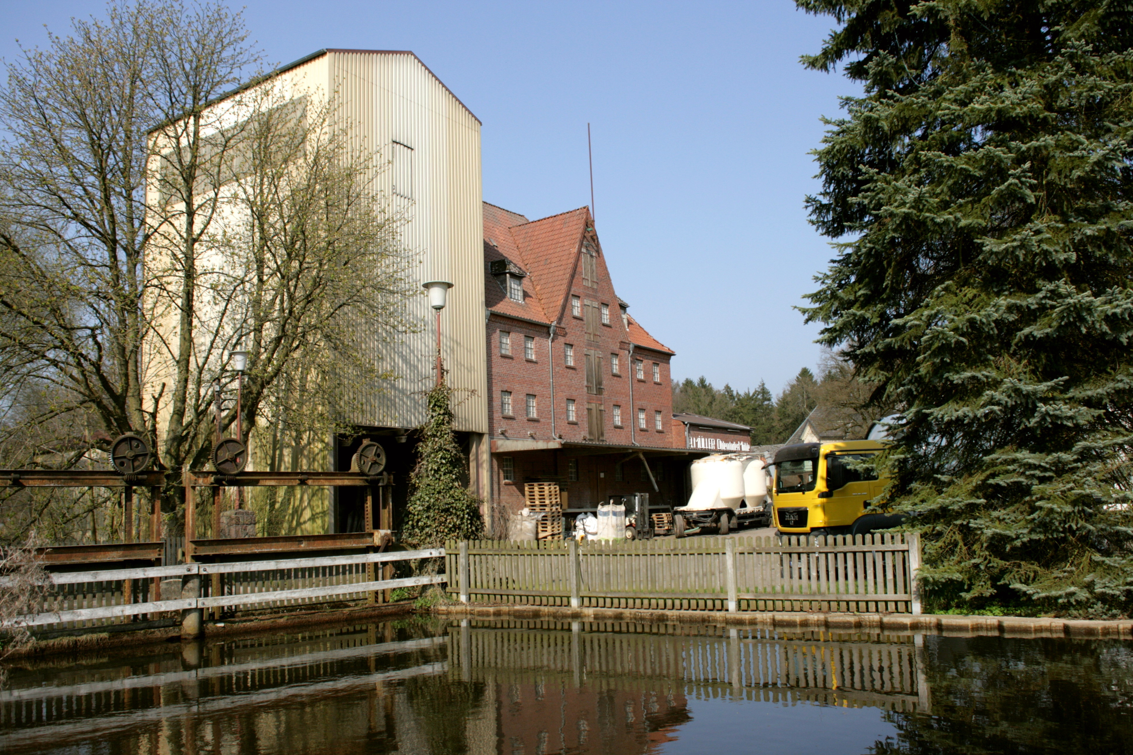 Oldendorfer Mühle, Mühlenweg 1 in Oldendorf (Luhe)